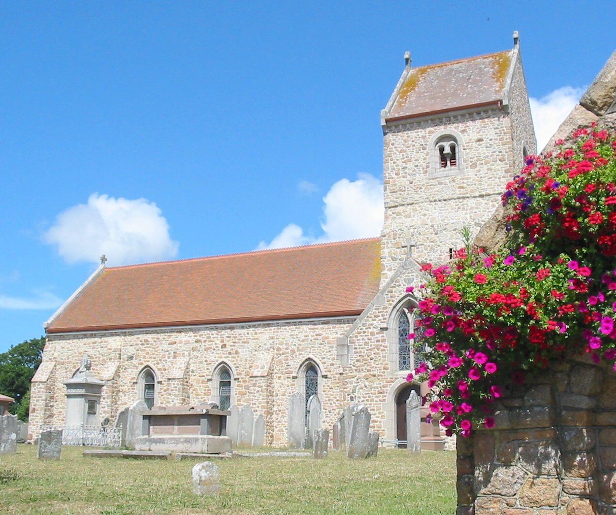 Parish Church, St. Lawrence, Jersey